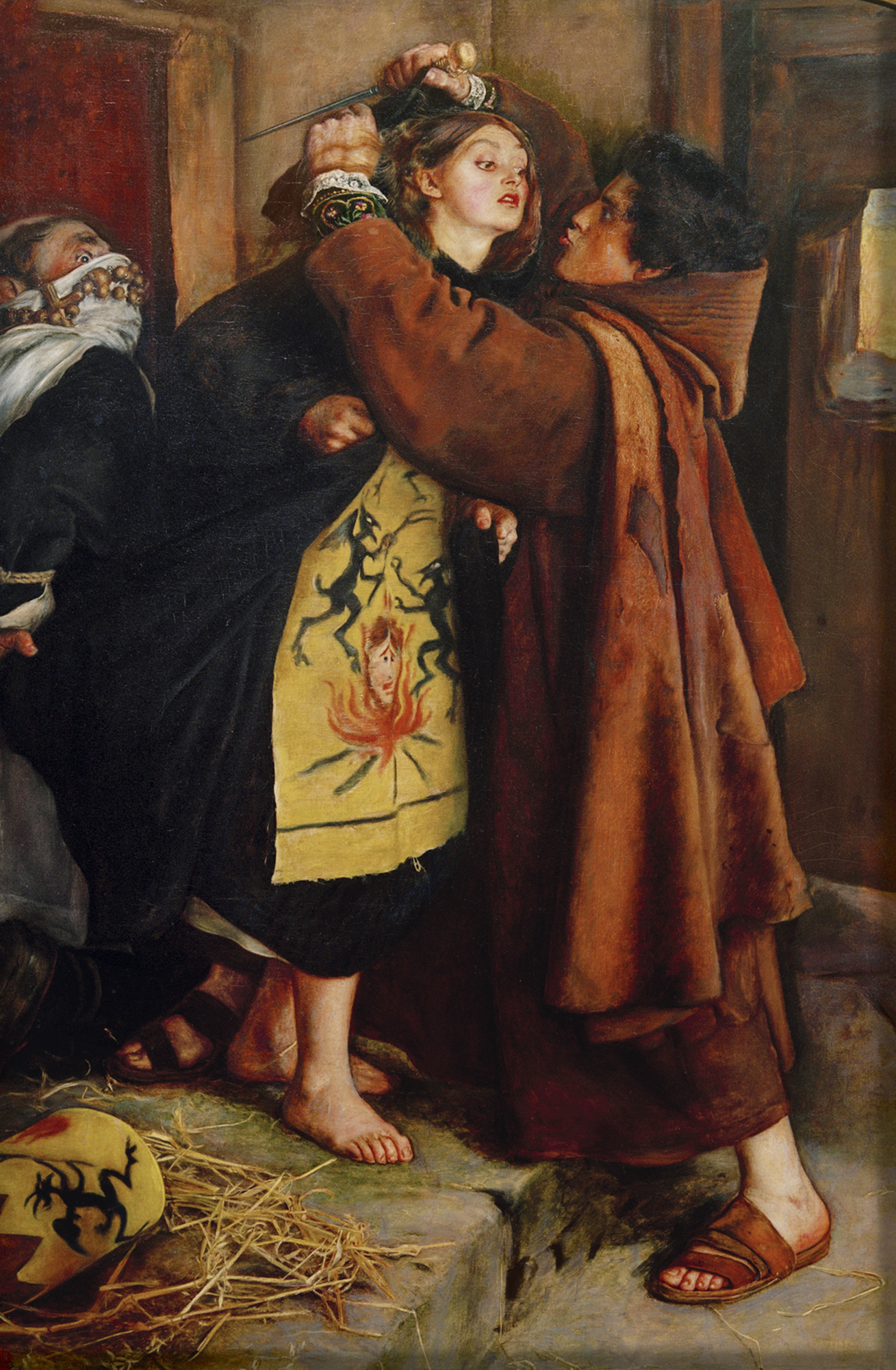 Persecution of protestants in Spain